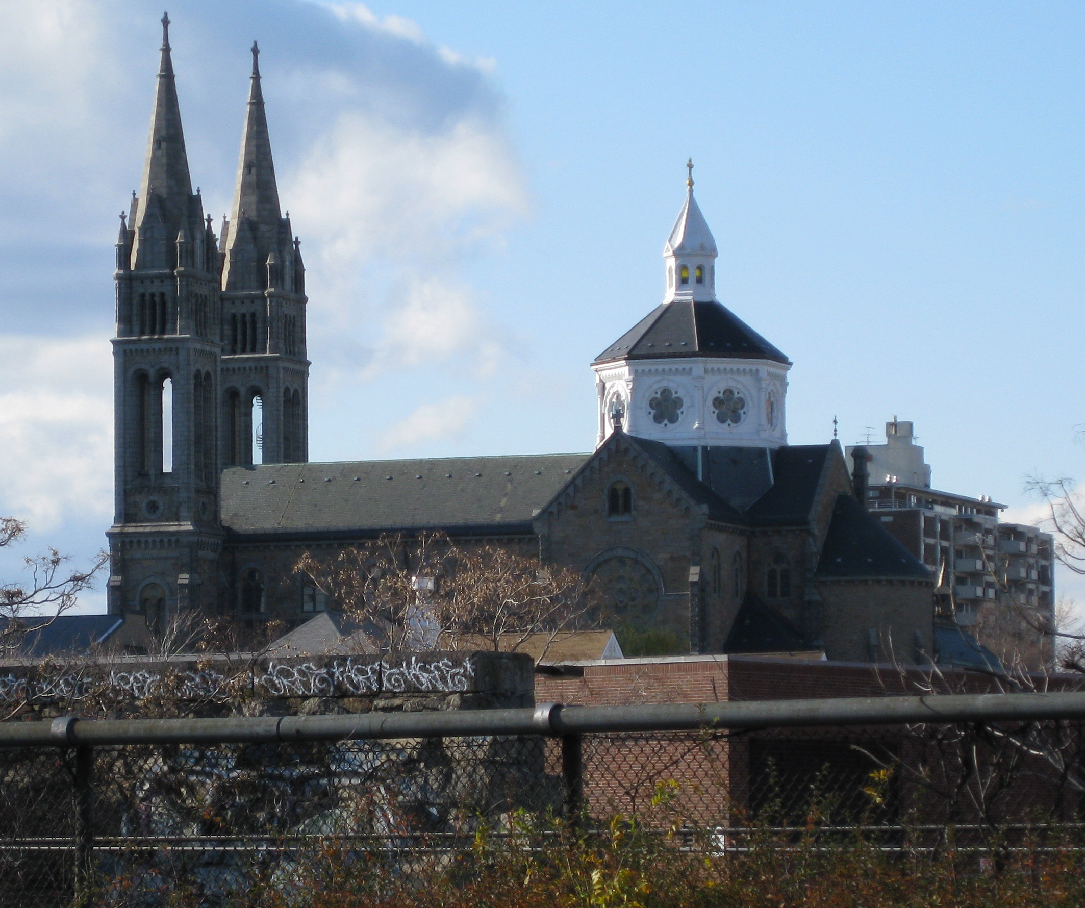 Mission Church, Boston, Massachusetts